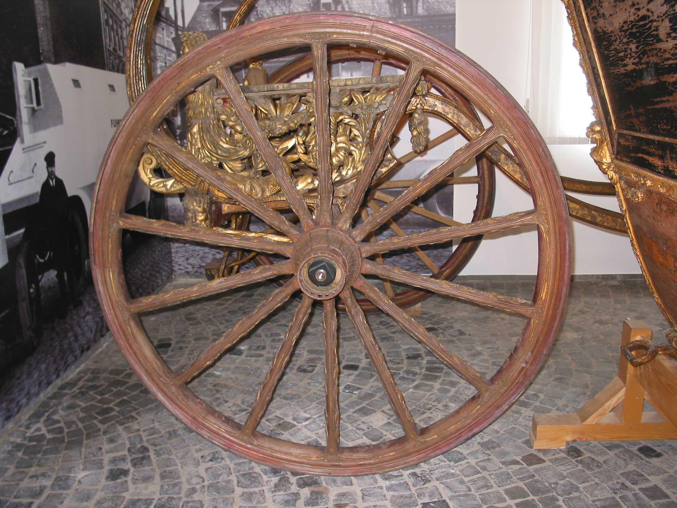 Museum axle wheel and car in Wiehl at the company BPW axle factory KG - Wheel of the coronation car. Author This picture was made available kindly by Manfred Nierstenhöfer - for Wikipedia* Licence GNU FDL and CC-by-SA